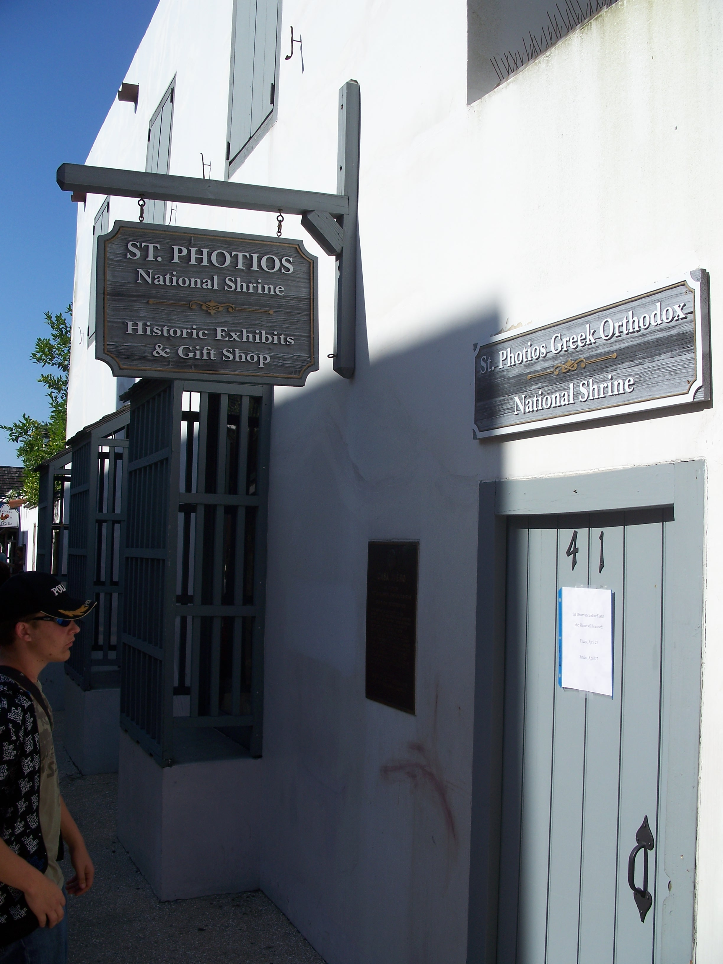 St. Augustine, Florida: Sign outside the Avero House.